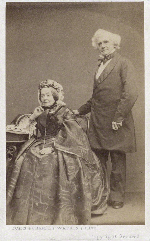 Anna Maria Hall (1800-1881) and her husband Samuel Carter Hall (1800-1889)